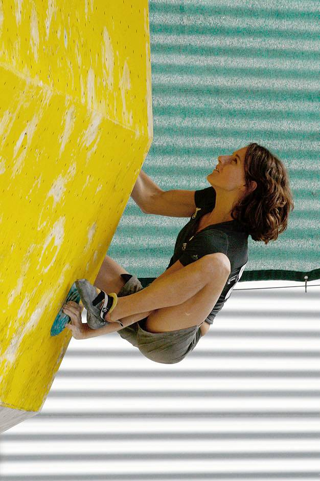 Melissa Le Nevé during qualifications at the IFSC Boulder Worldcup Vienna 2010.